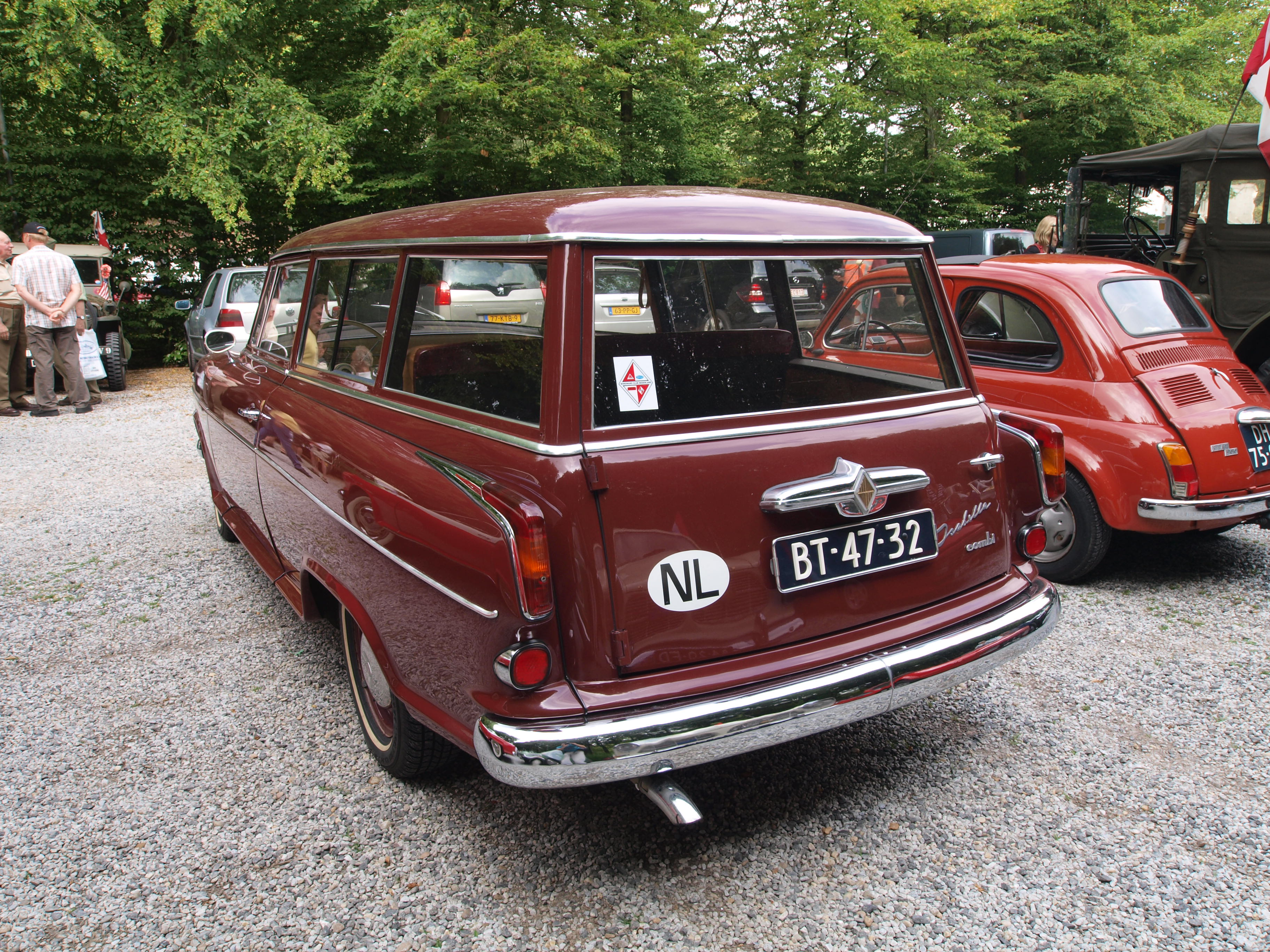 1960 Borgward H1500 Isabella